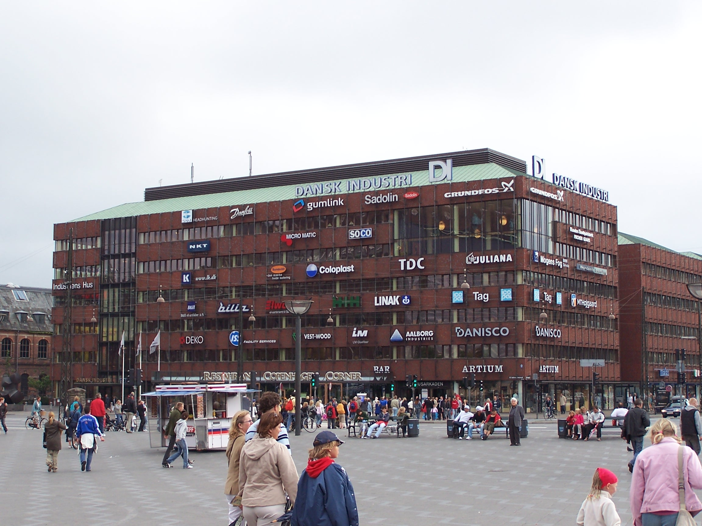 House of the Industry - headquarters of Confederation of Danish Industries at Town Hall Square in Copenhagen